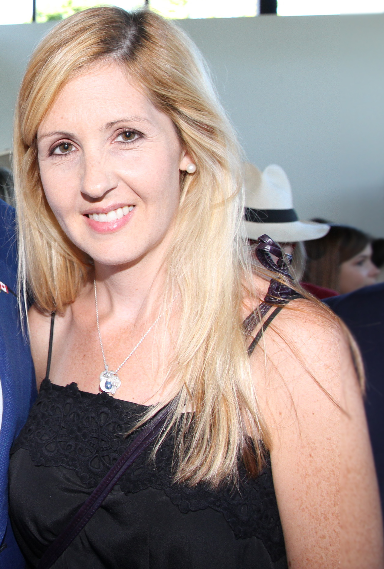 John Carmichael, MP, Don Valley West in the Northern Dancer Pavilion at the CFC Annual BBQ Fundraiser. Photos by: Danilo Ursini